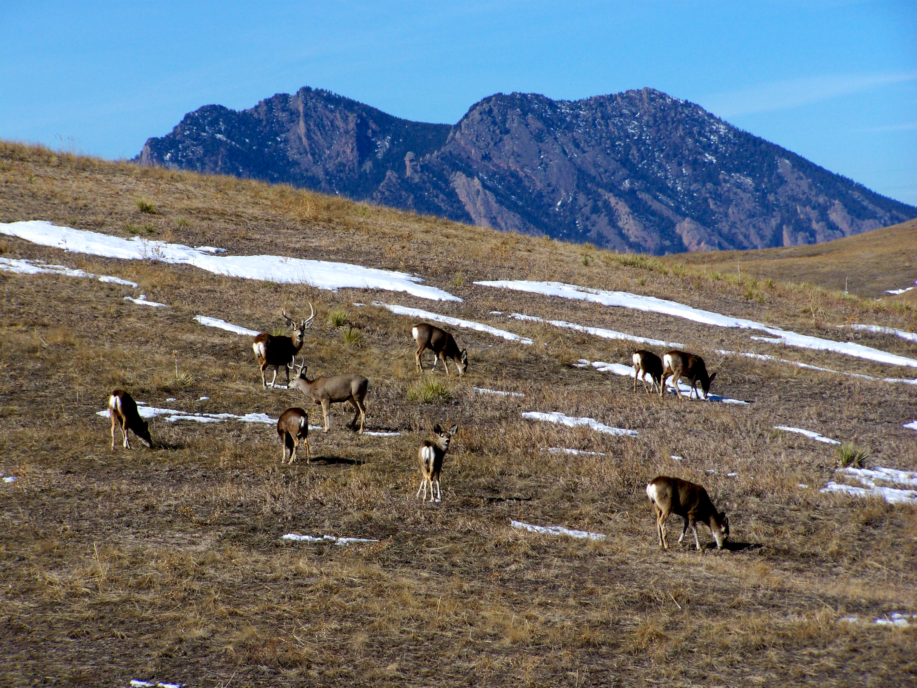 Deer at Rocky Flats National Wildlife Refuge with Flatirons in background. On the former site of the Rocky Flats Plant, near Denver in Jefferson County, Colorado.